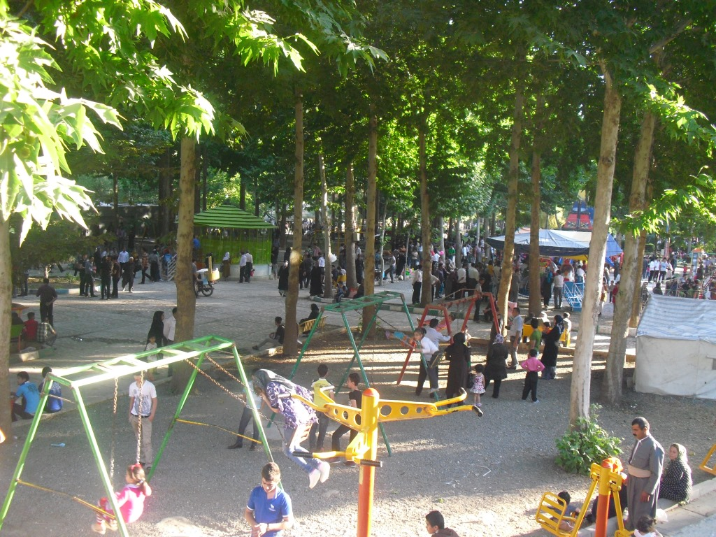 Mellat Park